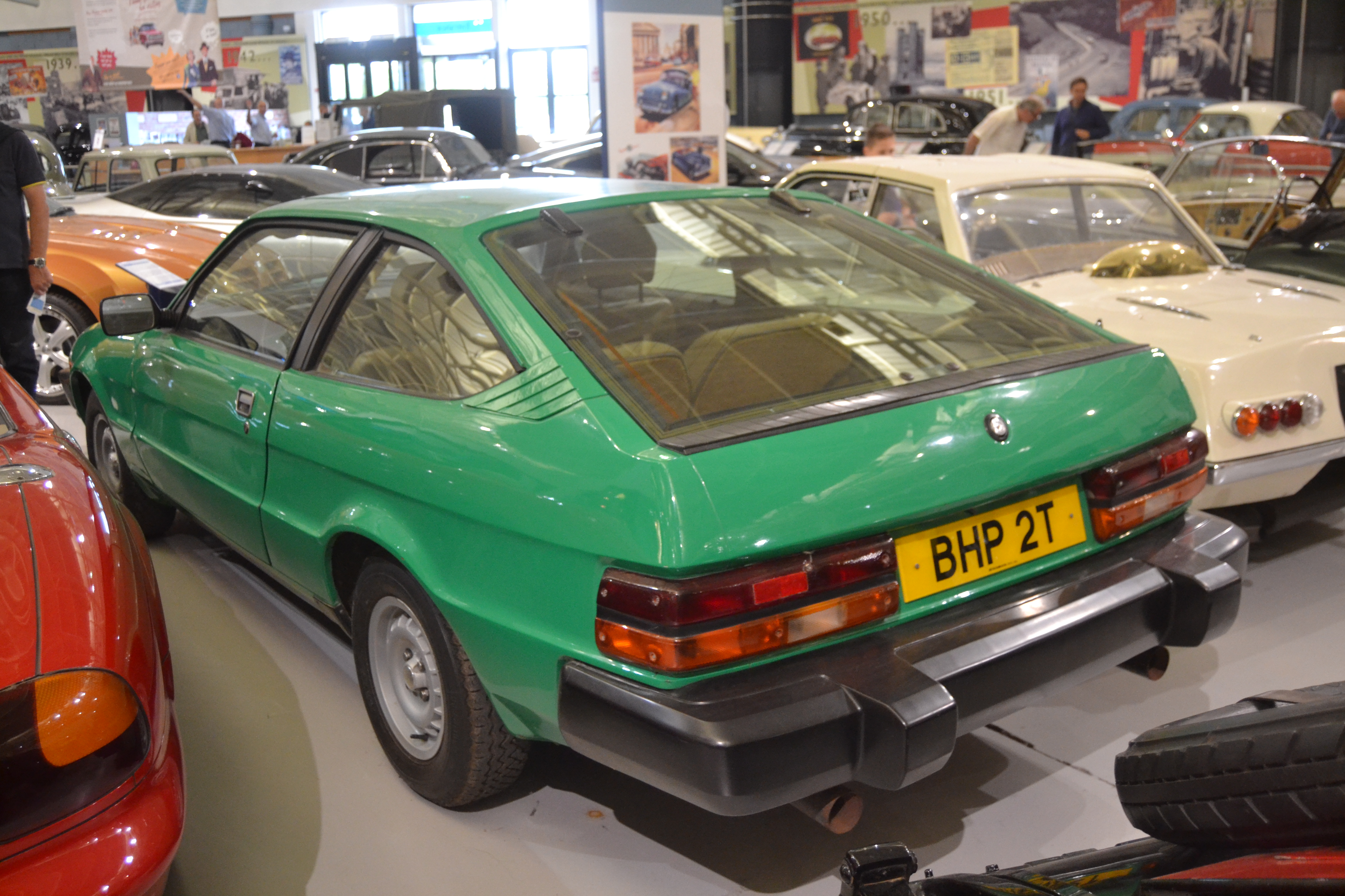 1978 Triumph Lynx Concept Car, exposed at Heritage Motor Centre, Gaydon, Warwickshire, UK